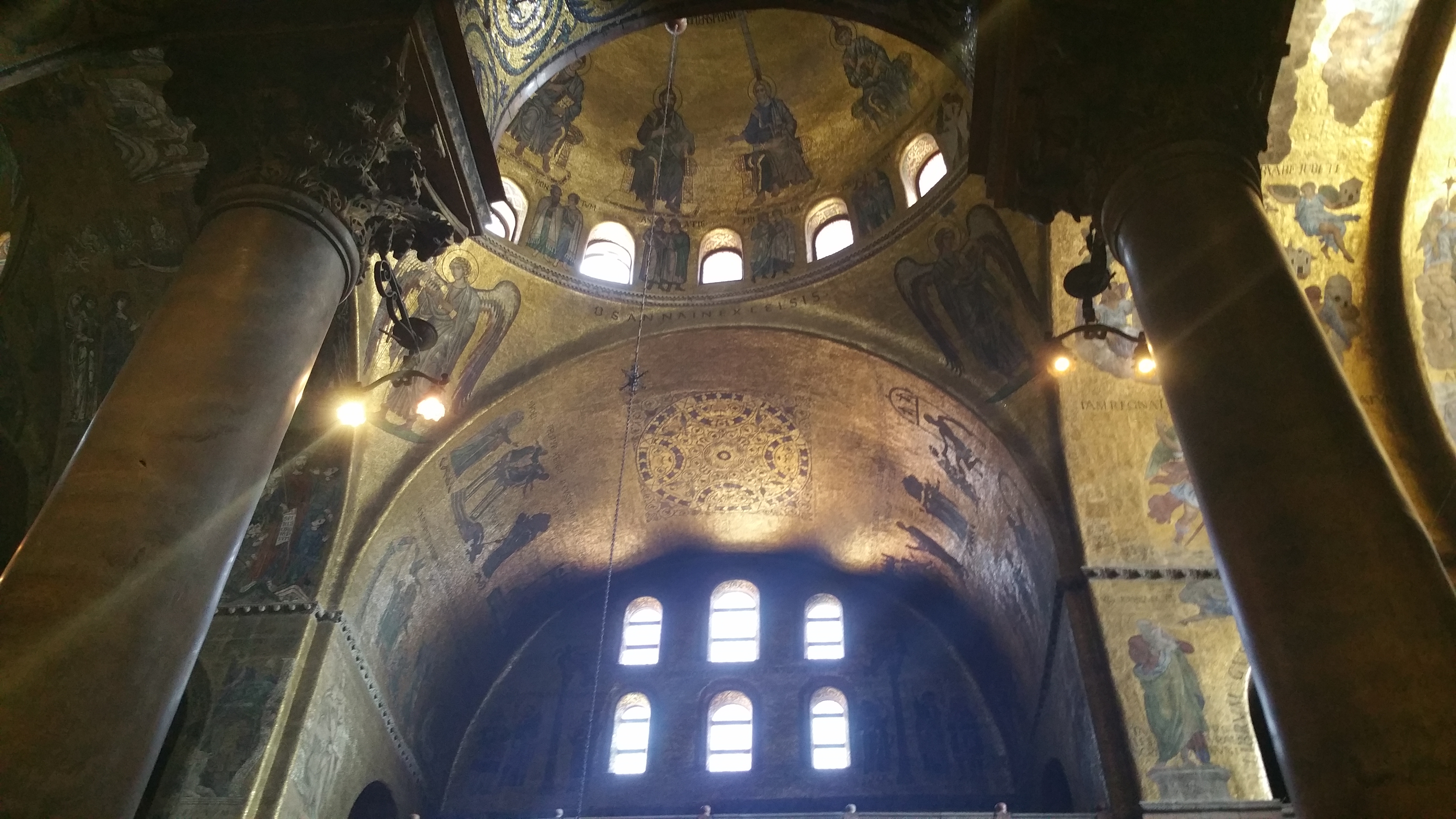 A small part of the golden mosaic that covers the interior walls of St. Mark's Basilica, Venice.